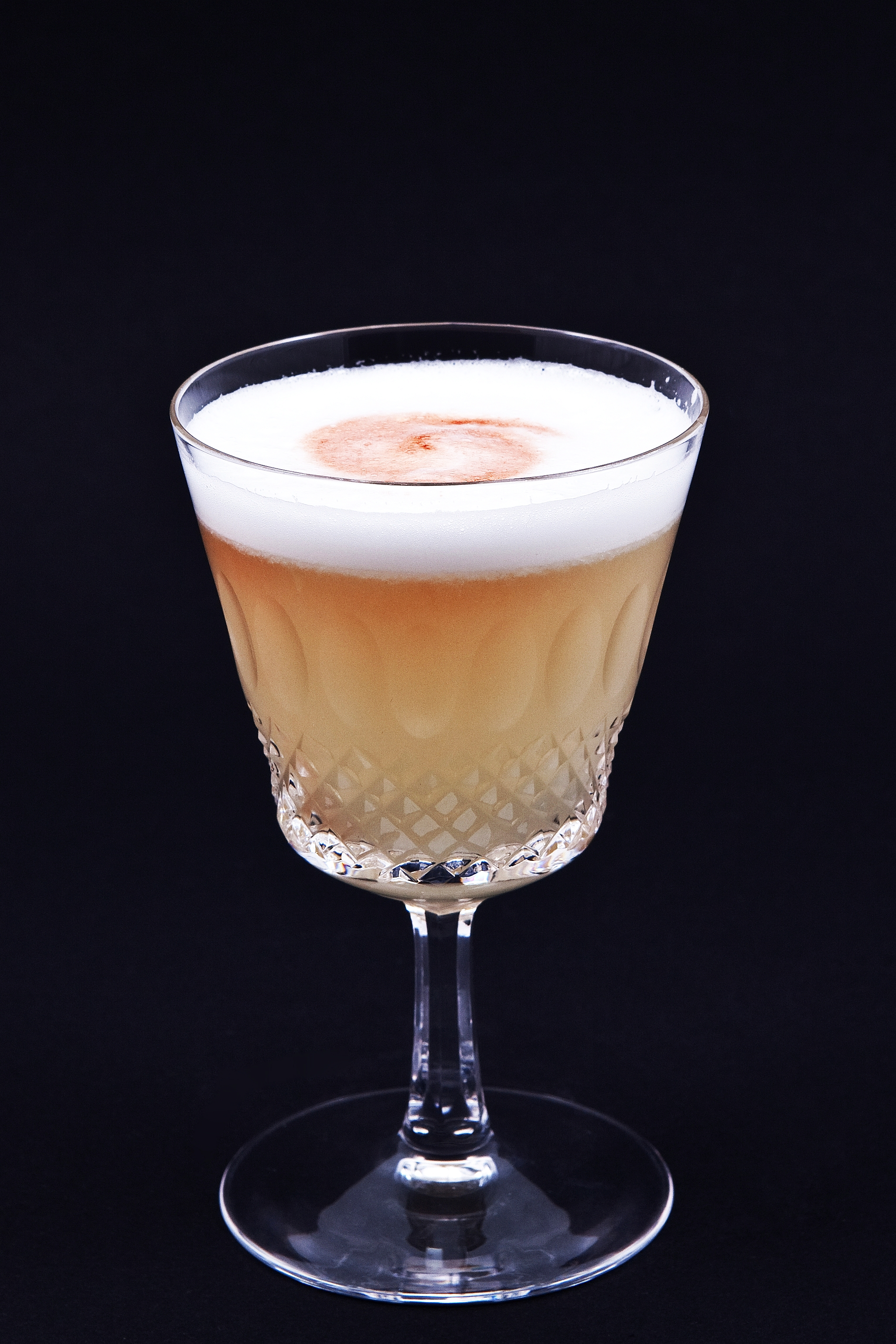 Pisco Sour Cocktail.